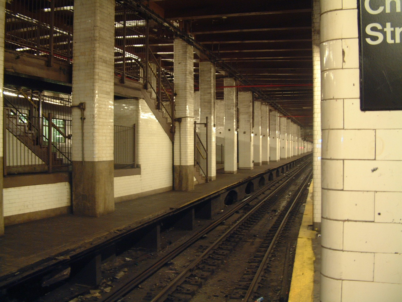 Abandoned center platform at Chambers Street station on the BMT Nassau Street Line.When opened in 1931, this station was the most important BRT landfall in Manhattan providing four tracks and five platforms. The completition of the Nassau Street Loop in 1931 turned it into an ordinary through station, and the extra platforms were no longer necessary.